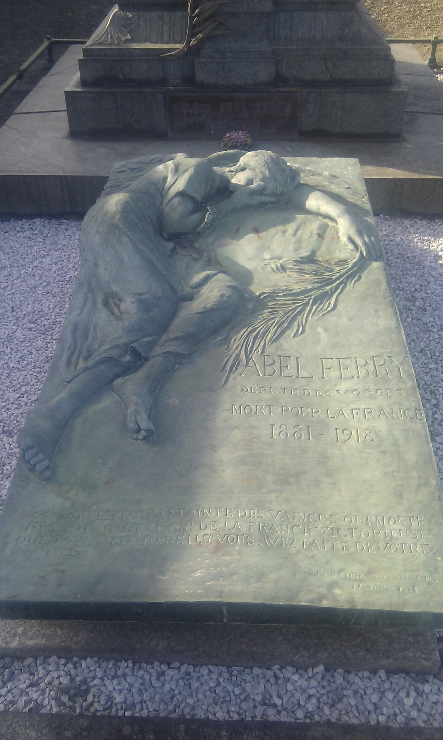 Abel Ferry grave